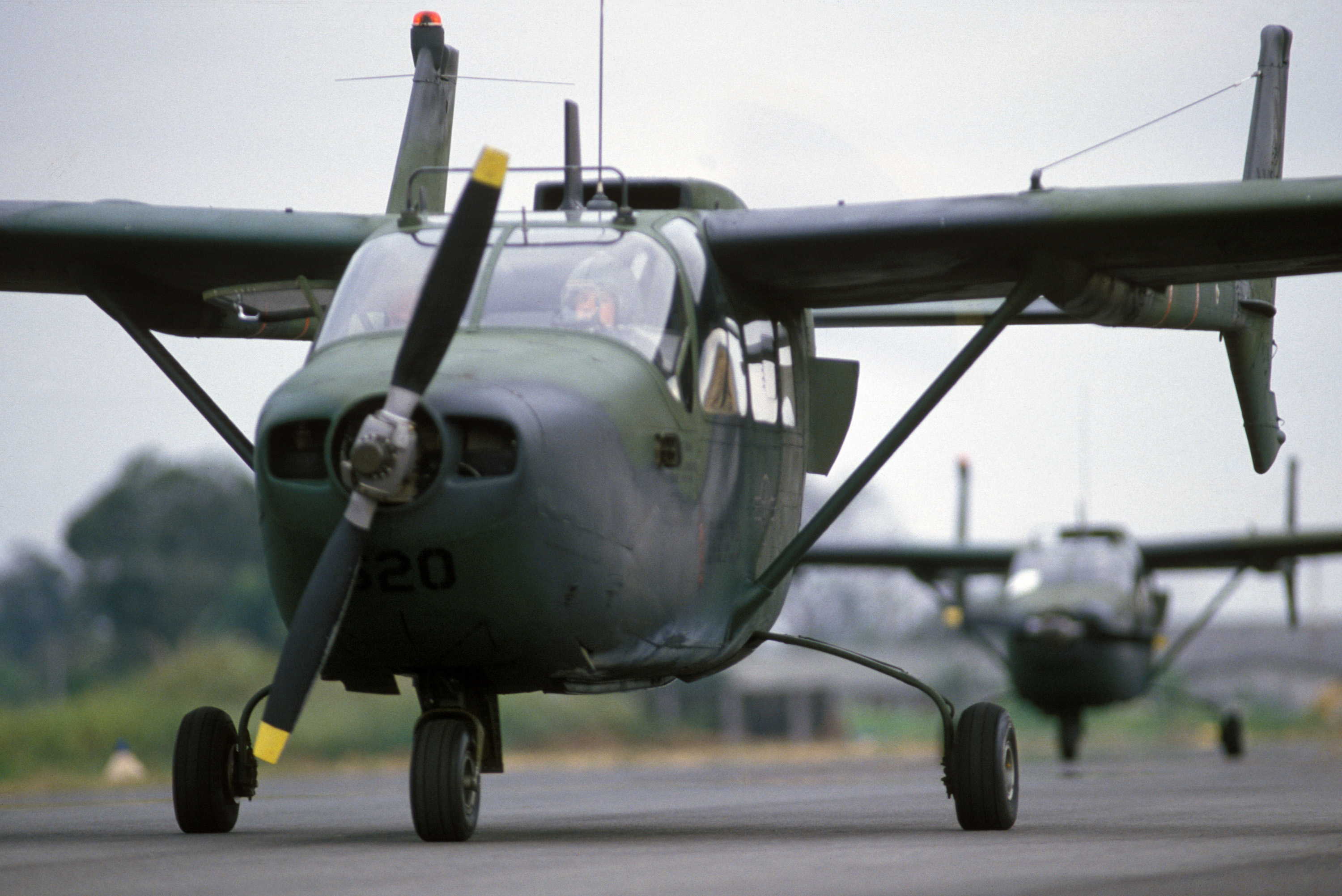 A Cessna O-2 aircraft from the 24th Consolidated Aircraft Maintenance Squadron arrives at the base to participate in the joint US and Ecuadorian Exercise BLUE HORIZON. Operation / Series: BLUE HORIZON